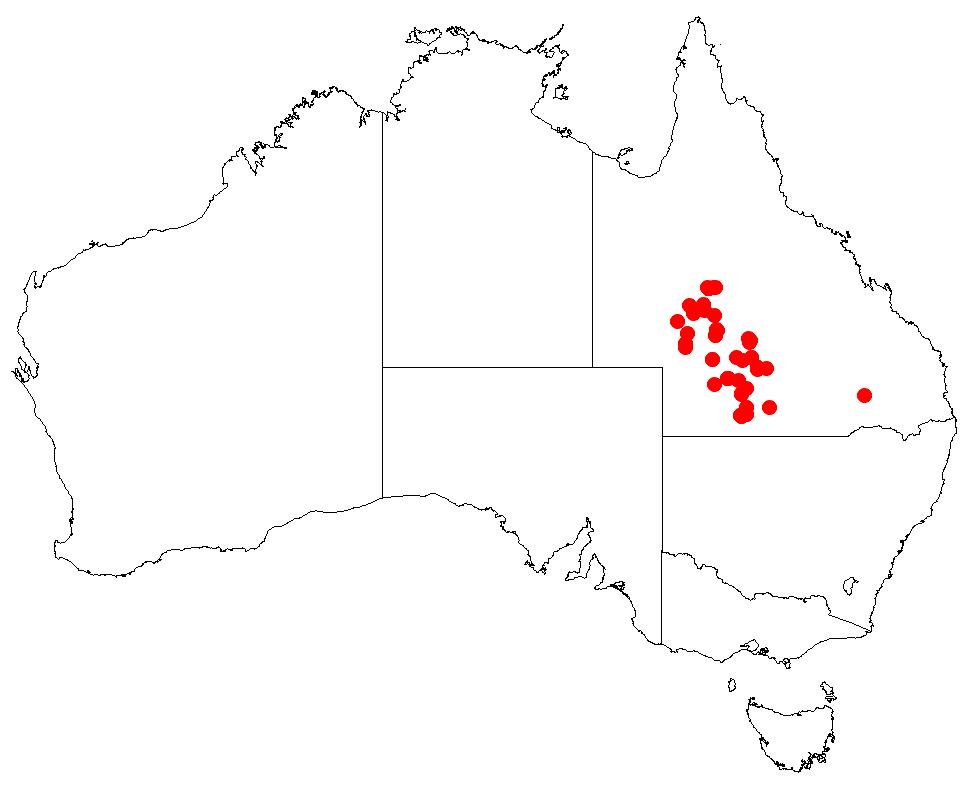 Hakea collina Occurrence data downloaded from Australasian Virtual Herbarium on 22 November 2018 using